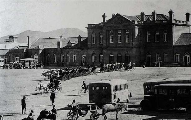 Jilin Railway Station 1938